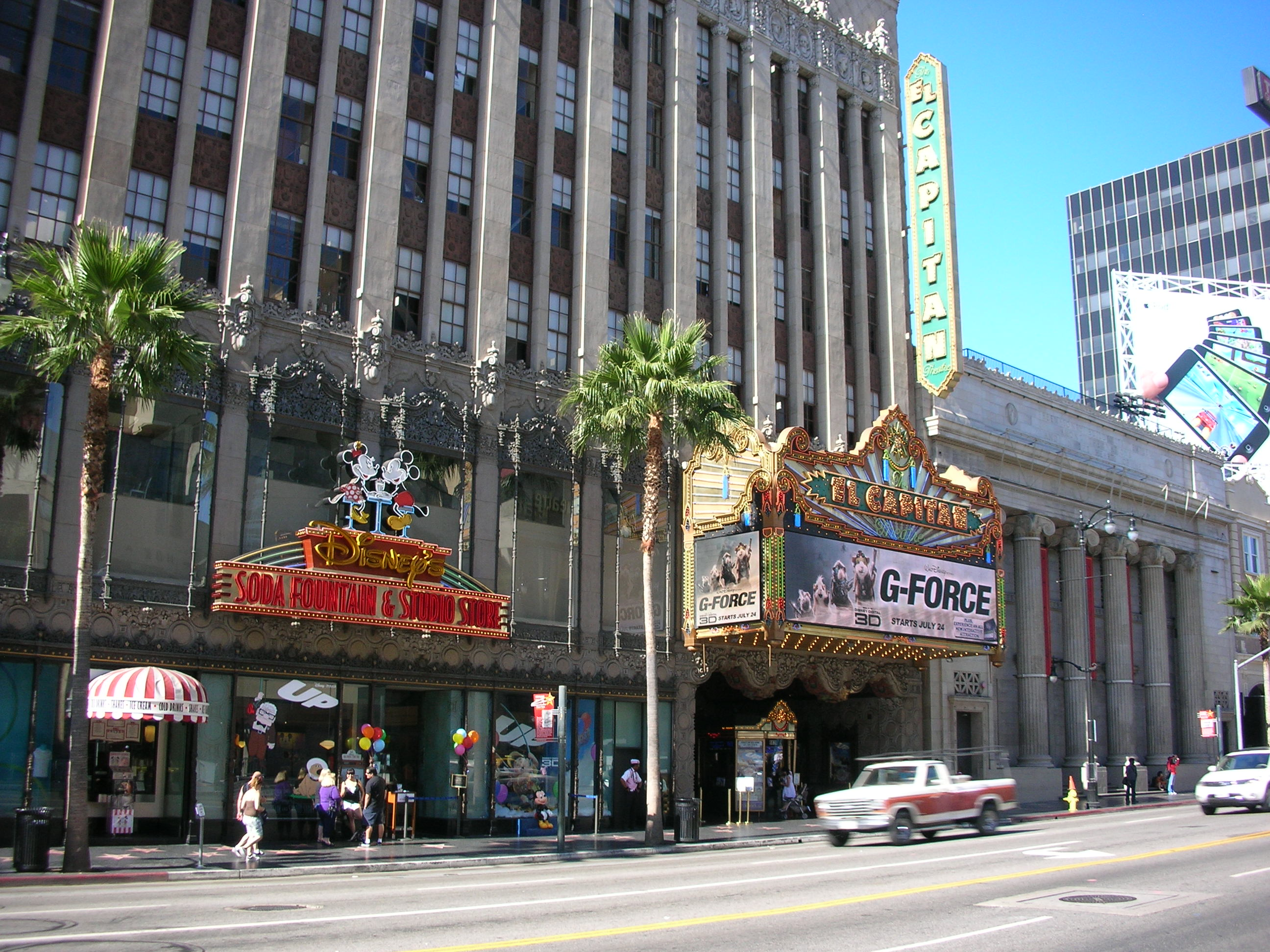 where we saw Pixar's "UP" in 3-D